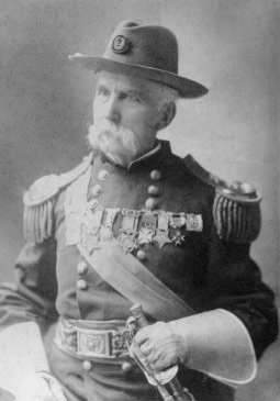 Silver gelatin print, 20 x 18 cm, of Joshua Lawrence Chamberlain in later life in his uniform and all this medals, circa 1900. Image courtesy of the Bowdoin College Library.